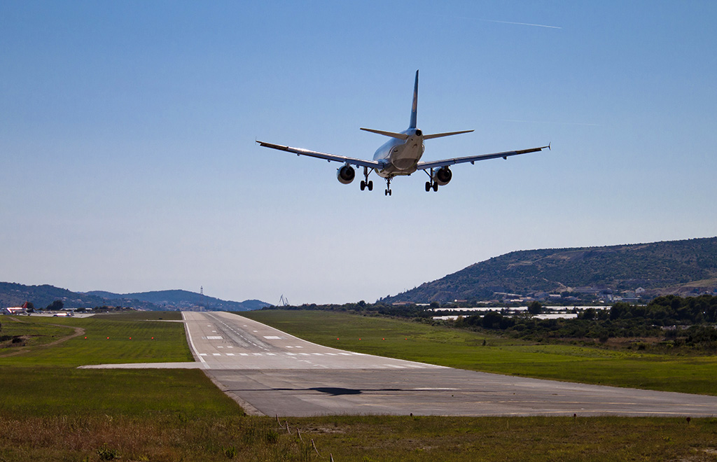 Lufthansa Airbus A319 landing at Split Airport